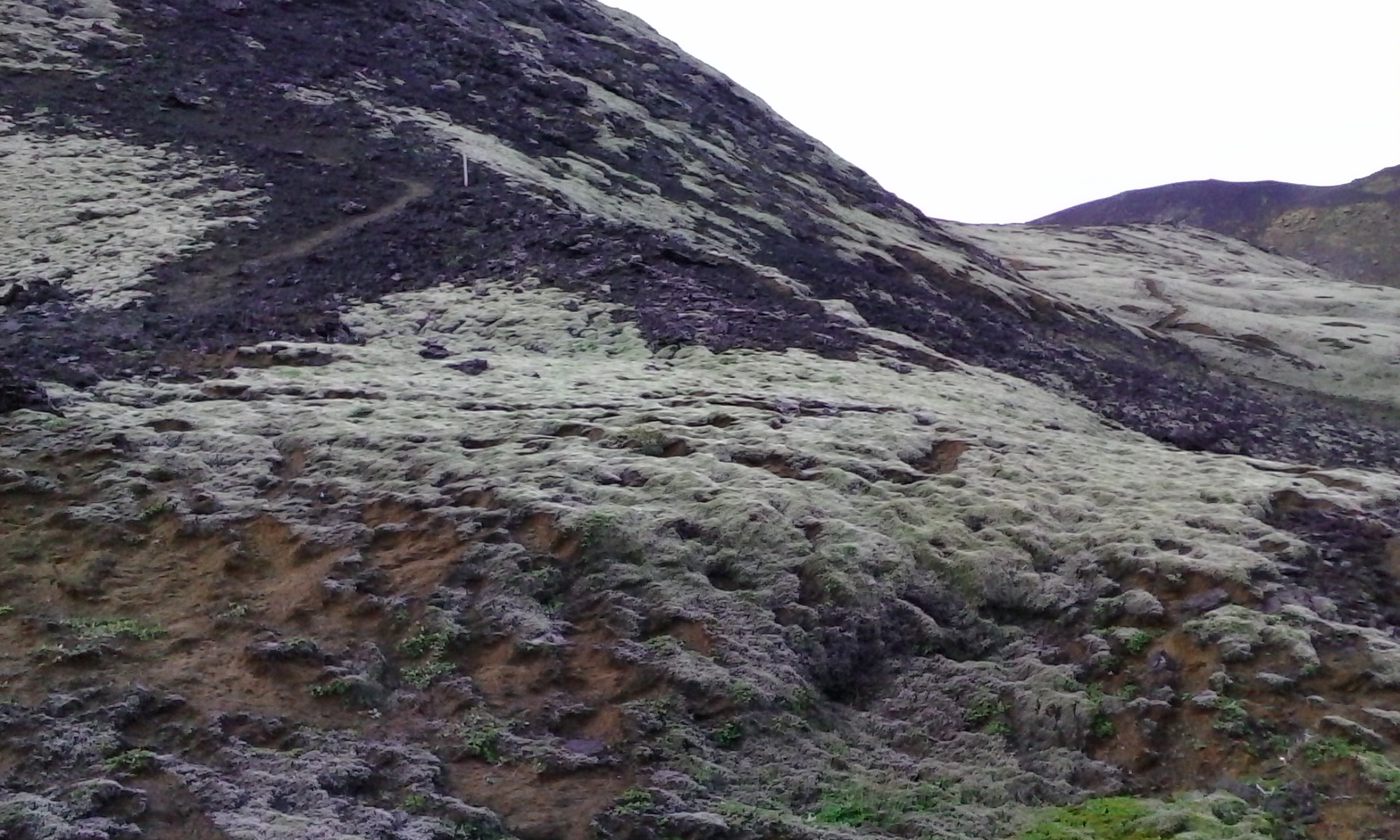 Eldborg crater, Bláfjöll, Southwest Iceland